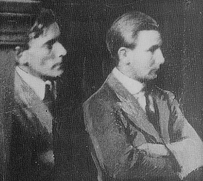 Image depicts the two perpetrators of the August 1920 "Crumbles murder" of 17-year-old Irene Munro